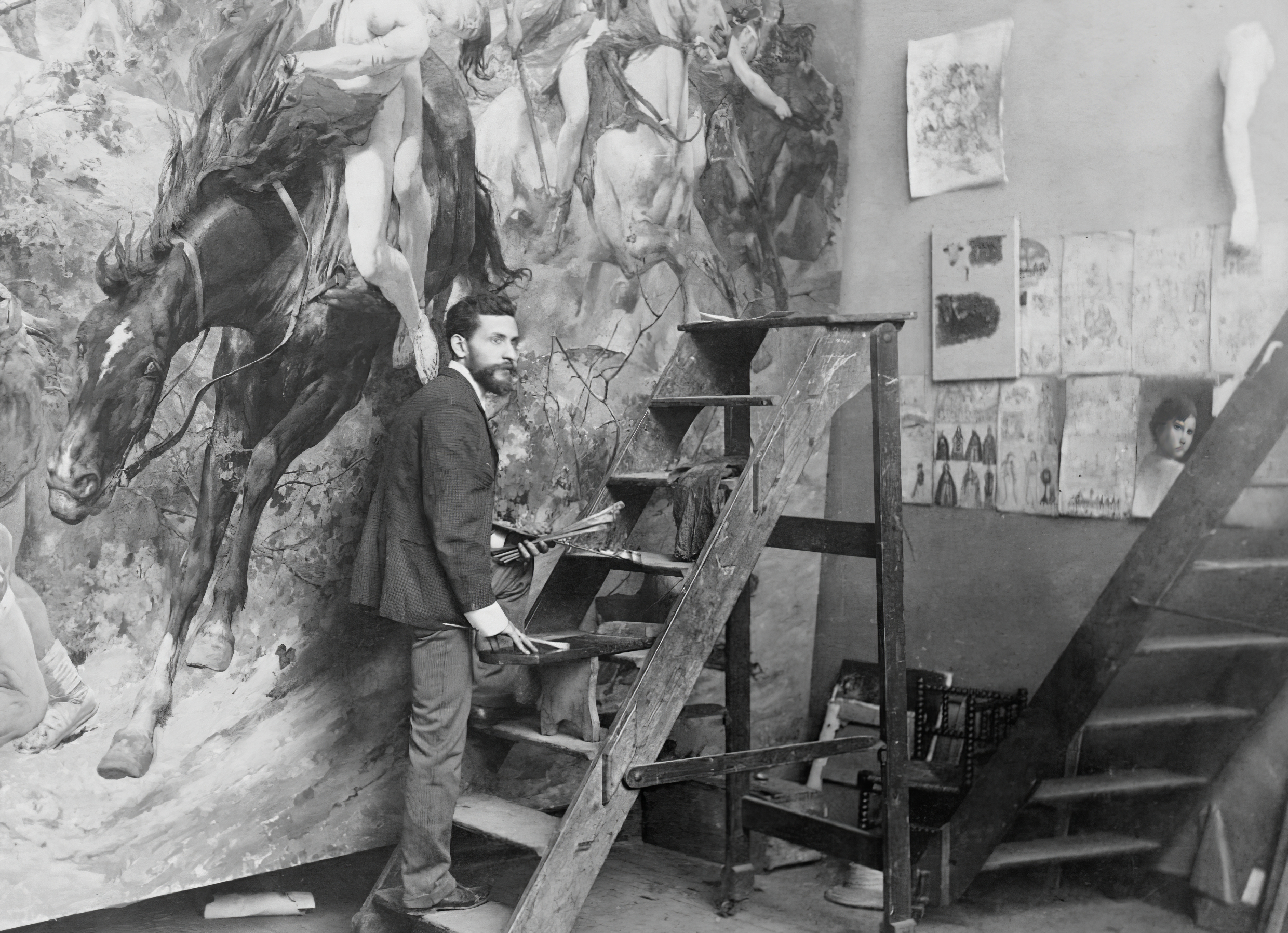 Arturo Micheleno in his Paris studio